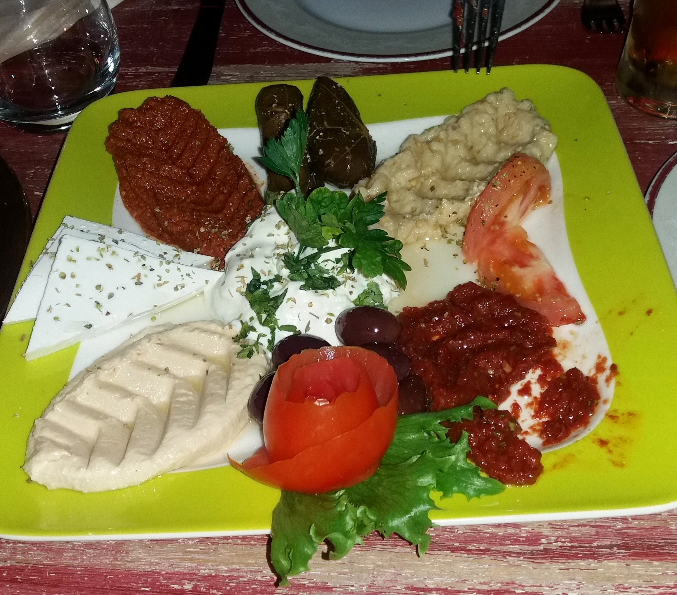 Turkish meze cuisine